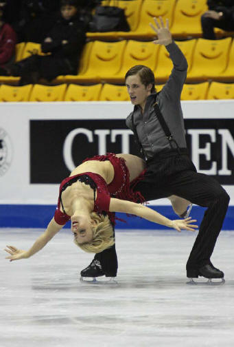 Madison Hubbell & Keiffer Hubbell (USA) perform a lift during their original dance at the 2008-2009 Junior Grand Prix Final.